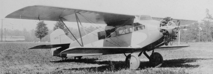 PictionID:46539938 - Catalog:Array - Title:Array - Filename:AL-248F_043 Buhl CA-5 Airsedan NC1451.tif - Robert Reedy was a native of Amarillo Texas. He attended college in Wichita Kansas, studying aeronautical engineering. On graduation he was quickly snapped up by Stearman Aircraft. During his subsequent career he made stops at Lockheed, Thorp and back to Lockheed where he retired as a vice president of sales. Reedy was involved in the design of several Stearman, Vega and Thorp types, the Lockheed P2V, Little Dipper, Big Dipper, and L-1011.--Please Tag these images so that the information can be permanently stored with the digital file.---Repository: San Diego Air and Space Museum